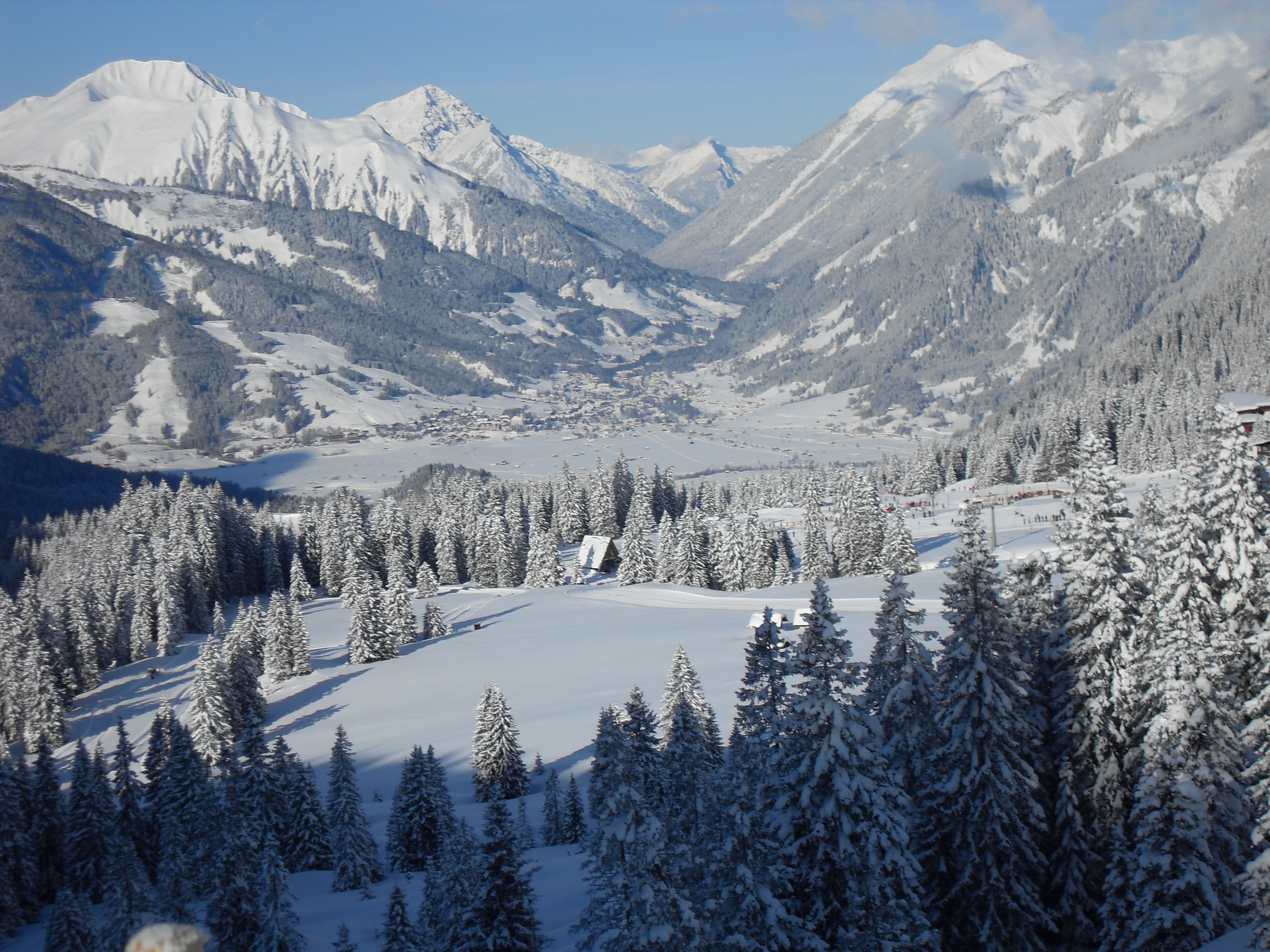 A view from Ehrwald, Austria from the ski slopes. 15 FEB 2009. The visible village is Lermoos